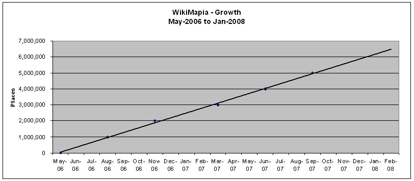 A graph of the number of places marked in WikiMapia between its launch in May 2006 and Jan 2008.